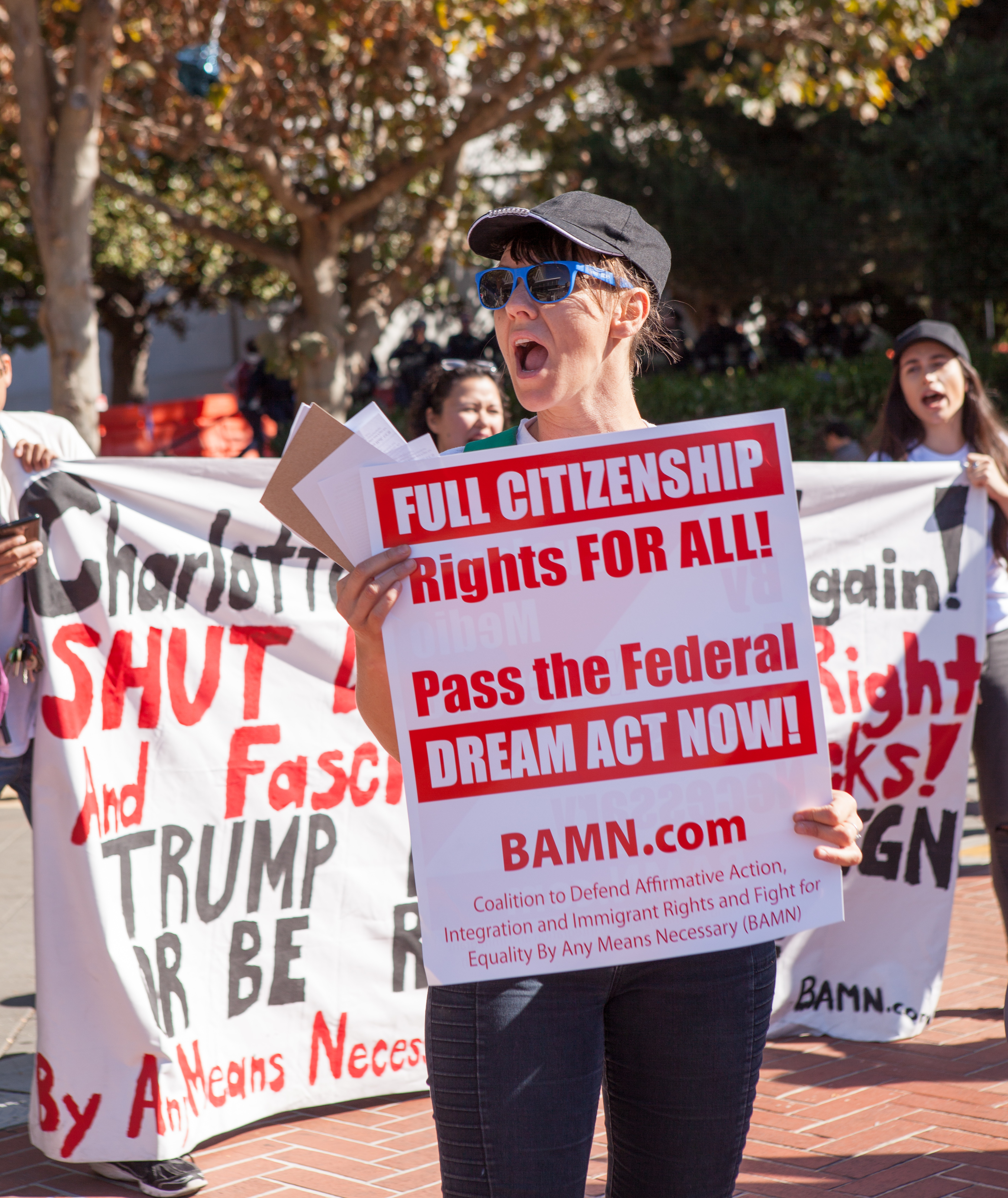 A protester with By Any Means Necessary holds a sign reading "Full citizenship rights for all" on the sidewalk outside Sproul Plaza, UC Berkeley.